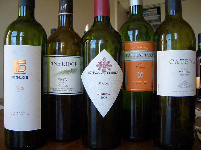 Consensus favorite bottles.